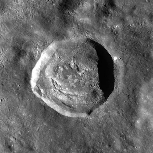 LRO image of Das crater, on the far side of the moon, from the Wide Angle Camera (WAC).